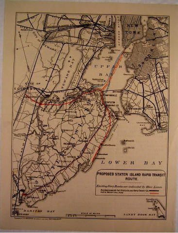 Proposed Staten Island Transit route map 1884 Bridgman "Proposed Staten Island Rapid Transit Route"- "Existing Ferry Routes are indicated by blue lines" Issued c. 1884 by E.C. Bridgman NY, Map Publisher. (letter on verso is dated October, 1884) Original late 19th century lithographed map with overprinted color denoting the different tansit lines both as they existed and as proposed. On the verso of the sheet is a full page letter from "The Mercantile Agency" & "R.G. Dun & Co." (see photo) soliciting the sale of investment bonds to expand the transit lines. VG condition overall, couple of minor tiny spots at bottom left, otherwise clean and nice. What appear to be original fold-lines as the item was originally likely sent out in an envelope. Very scarce 19th century promotional cartographic item related to Staten island and New York city. Sheet measures c.11 " H x 8 1/2 " W Engraved area measures c. 9 3/4 " H x 7 1/2 " W Z8283